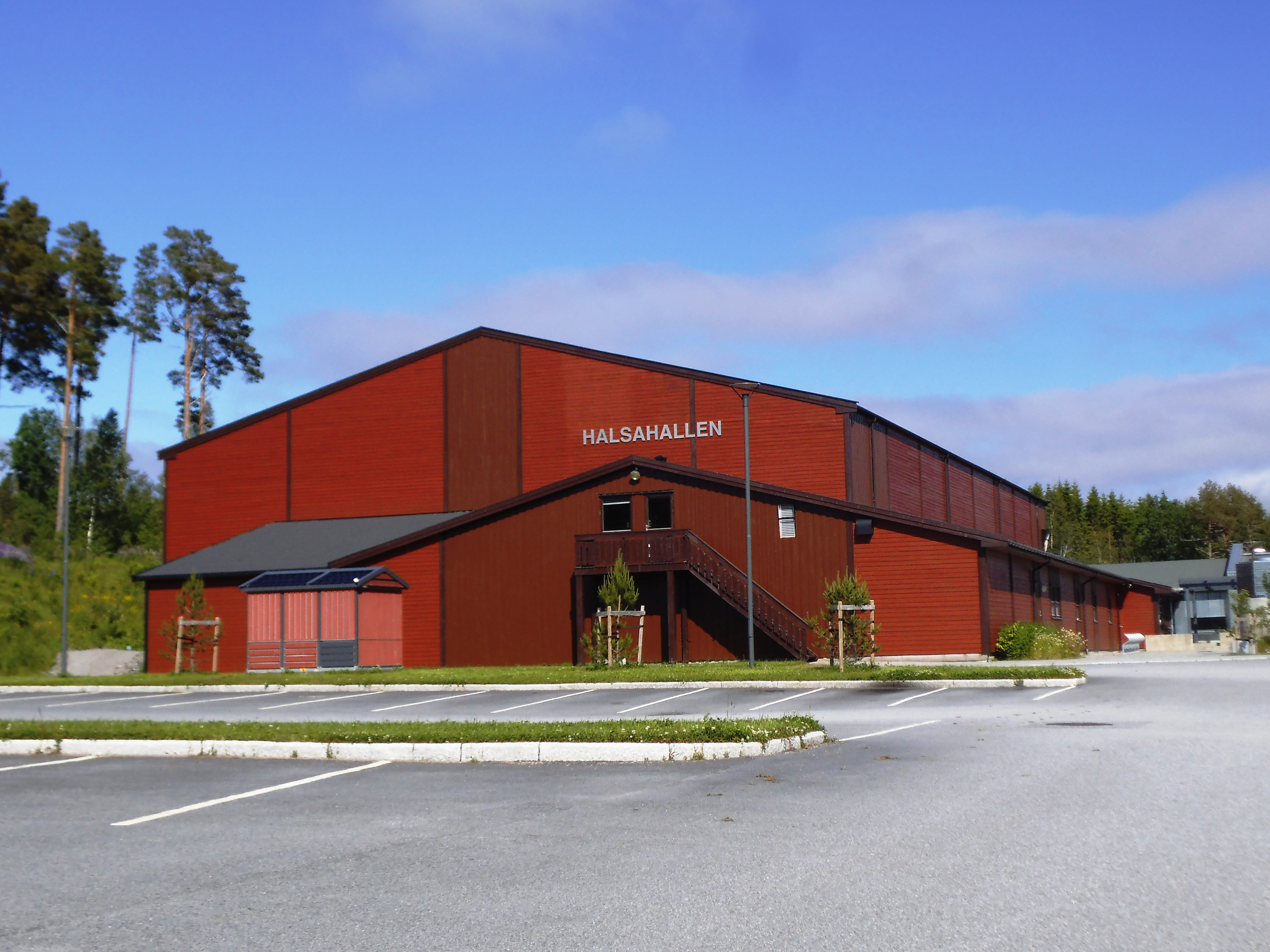 Halsahallen